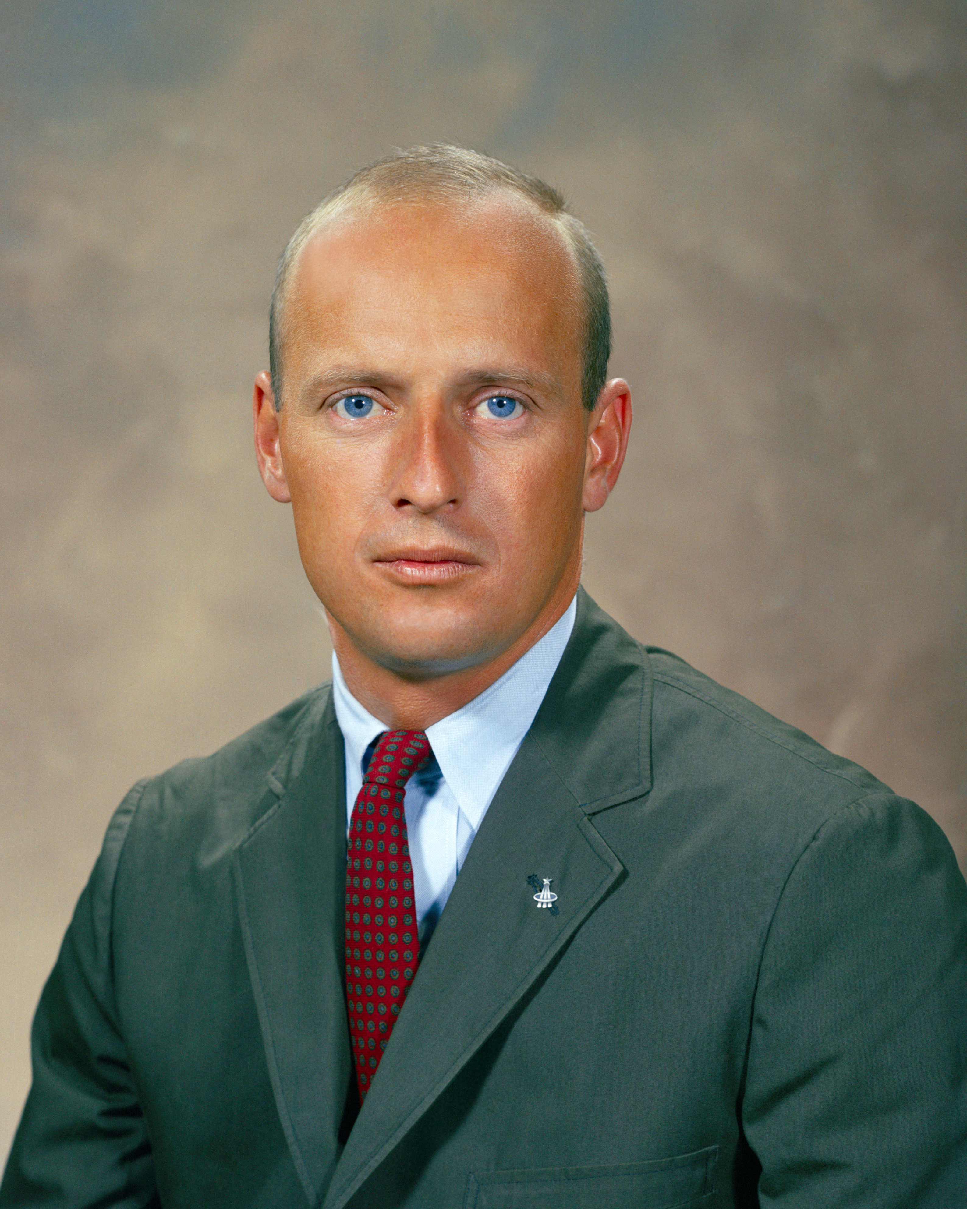 Portrait of astronaut Charles Conrad Jr..